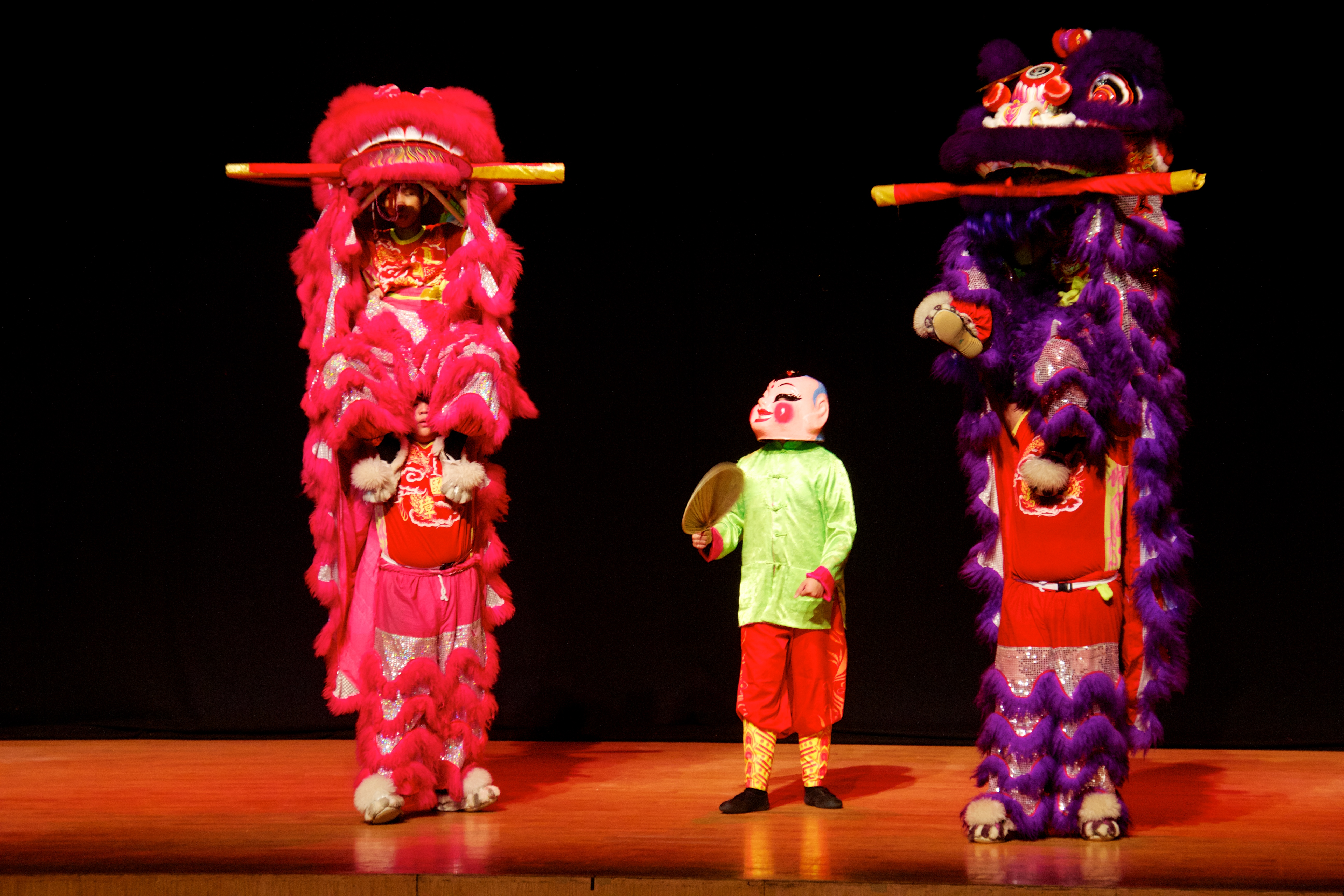 Lion dance at Wikimania 2013 opening ceremory.